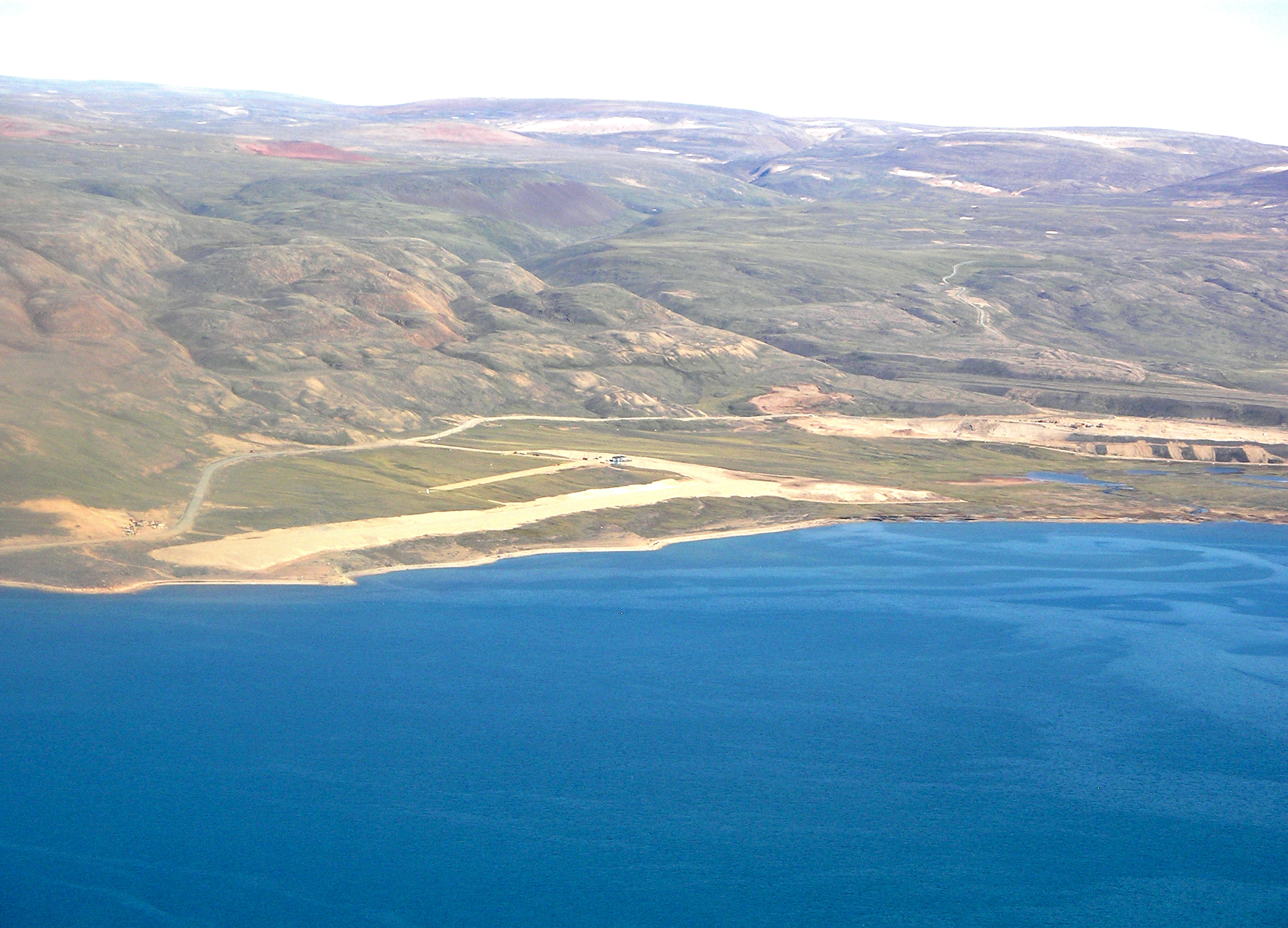 In 2010 a new runway was completed south of the existing runway. A new terminal building was built on the site of the old runway.